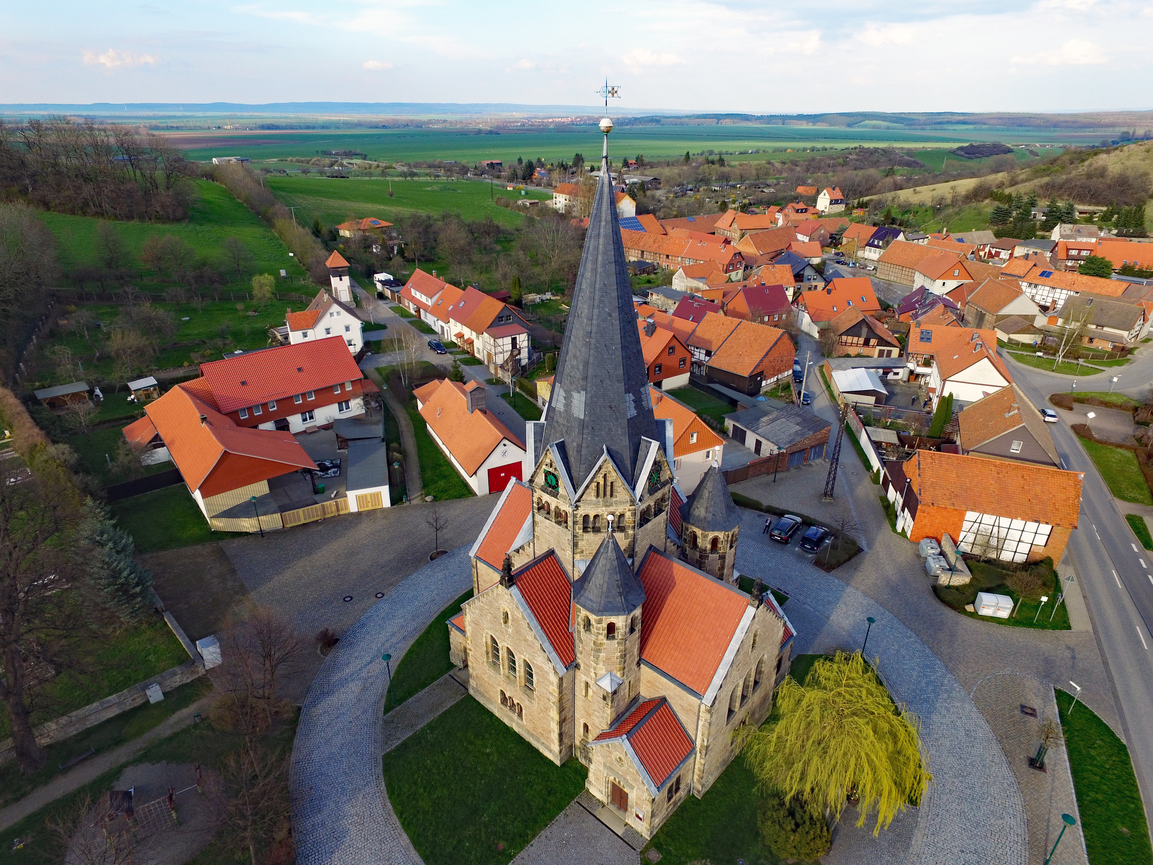 Dorfkirche Benzingerode